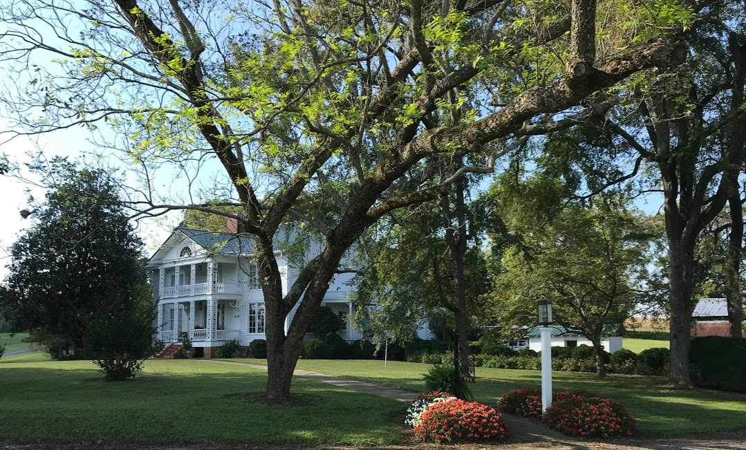 Daltonia